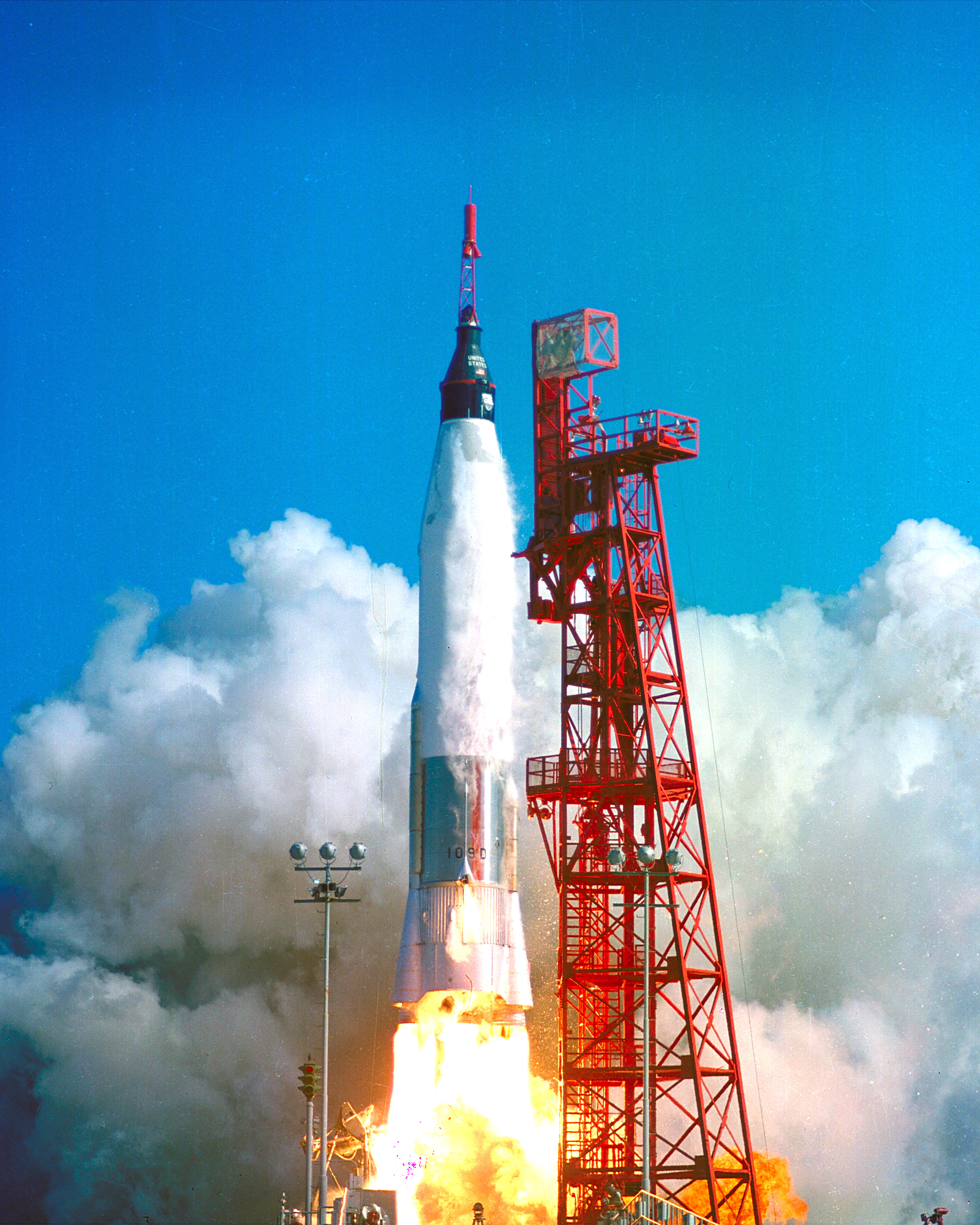 Launch of Friendship 7, the first American manned orbital space flight. Astronaut John Glenn aboard, the Mercury-Atlas rocket is launched from Pad 14.